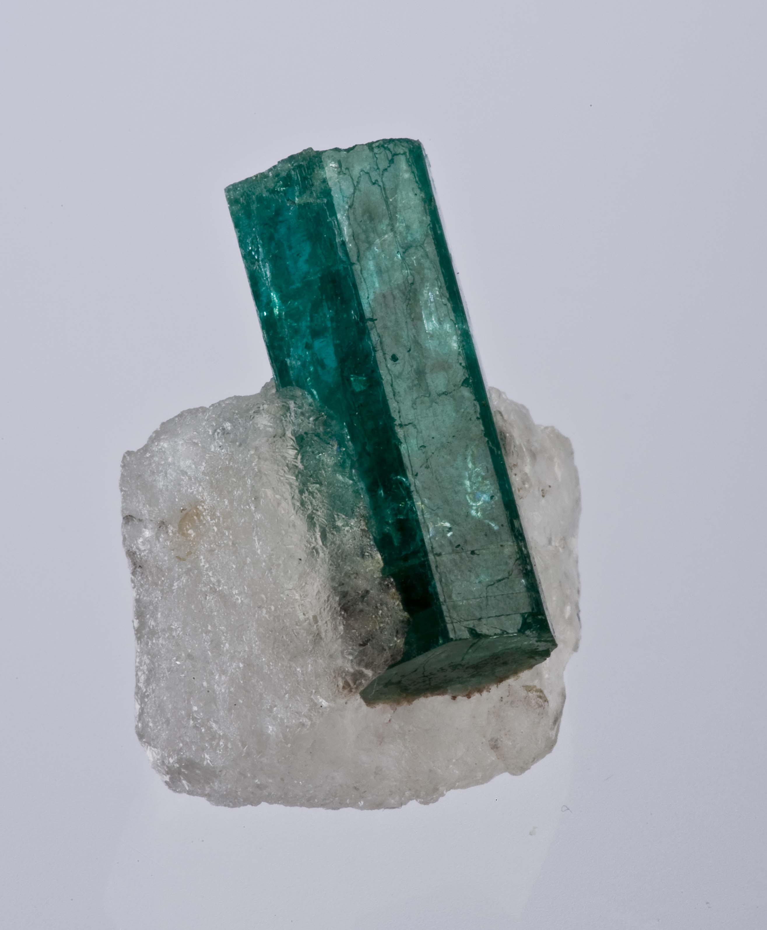 Beryl, Quartz Locality: Kagem Emerald Mine, Kafubu Emerald District, Ndola, Copperbelt Province, Zambia (Locality at ) Size: miniature, 3.0 x 2.7 x 2.6 cm Emerald on Quartz In some ways, this was my favorite of the emeralds on sale from the first specimen production out of this world-famous gem mine, for its overall quality and aesthetics. The knoll of quartz matrix features a SHARP and VERY EQUANT, 2.6-cm-long emerald perched atop its natrual pedestal. Remarkably, it was excavated without it falling out and needing repairs. It is nestled, still, securely in the quartz which once enclosed (and protected!) the crystal. The top termination is very fine and sharp. The lower termination is not lustrous, but is nevertheless complete. It has a consistent , rich, evergreen color, darker than most Colombian emeralds and so distinct. It has better lustre and sharper form, than most Kagem pieces I have now seen. For a thumbnail-sized specimen (or it could display on a little pedestal as a small miniature), it was the best in the size class that I have seen for sale. Professional photos by Joe Budd. THIS SPECIMEN IS FEATURED ON THE ARTICLE ON THIS FIND, IN MINERALOGICAL RECORD JAN-FEB 2010, PAGE 64